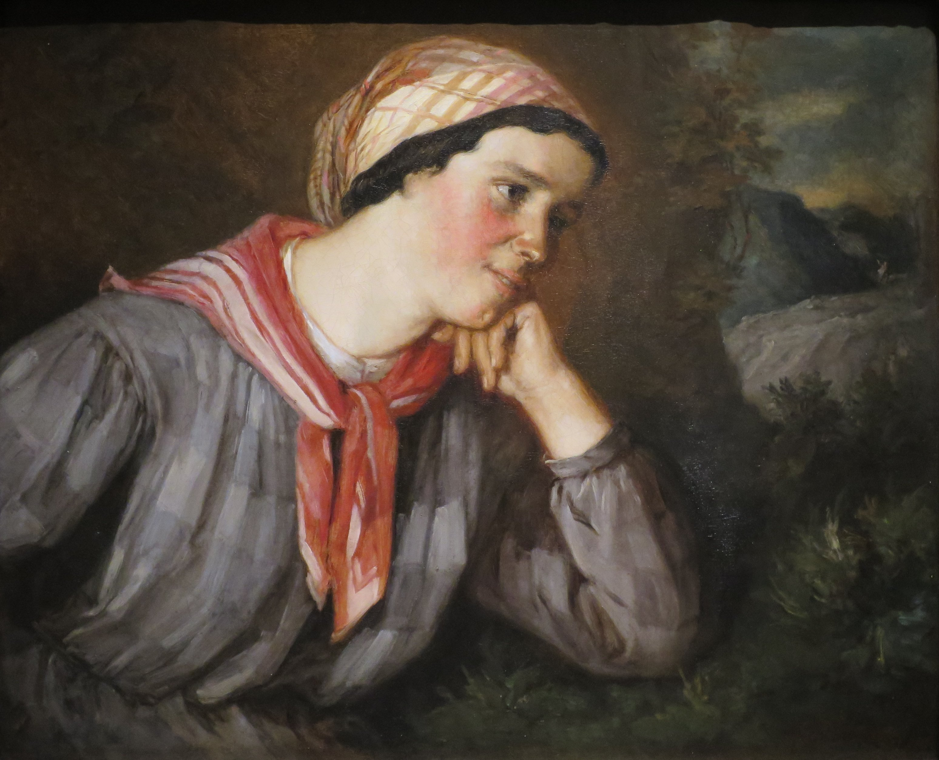 Peasant Girl with a Scarf